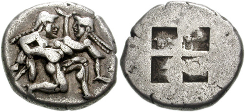 Satyr and Nymph. Silver stater from Thasos (Thrace). Circa 500-463 BC. 20 mm, 9.31 grams. Obverse: an ithyphallic satyr carries off a protesting nymph, who wears a long chiton and rises the right arm. Reverse: quadripartite incuse square. Le Rider, Thasiennes 2; SNG Copenhagen 1008.